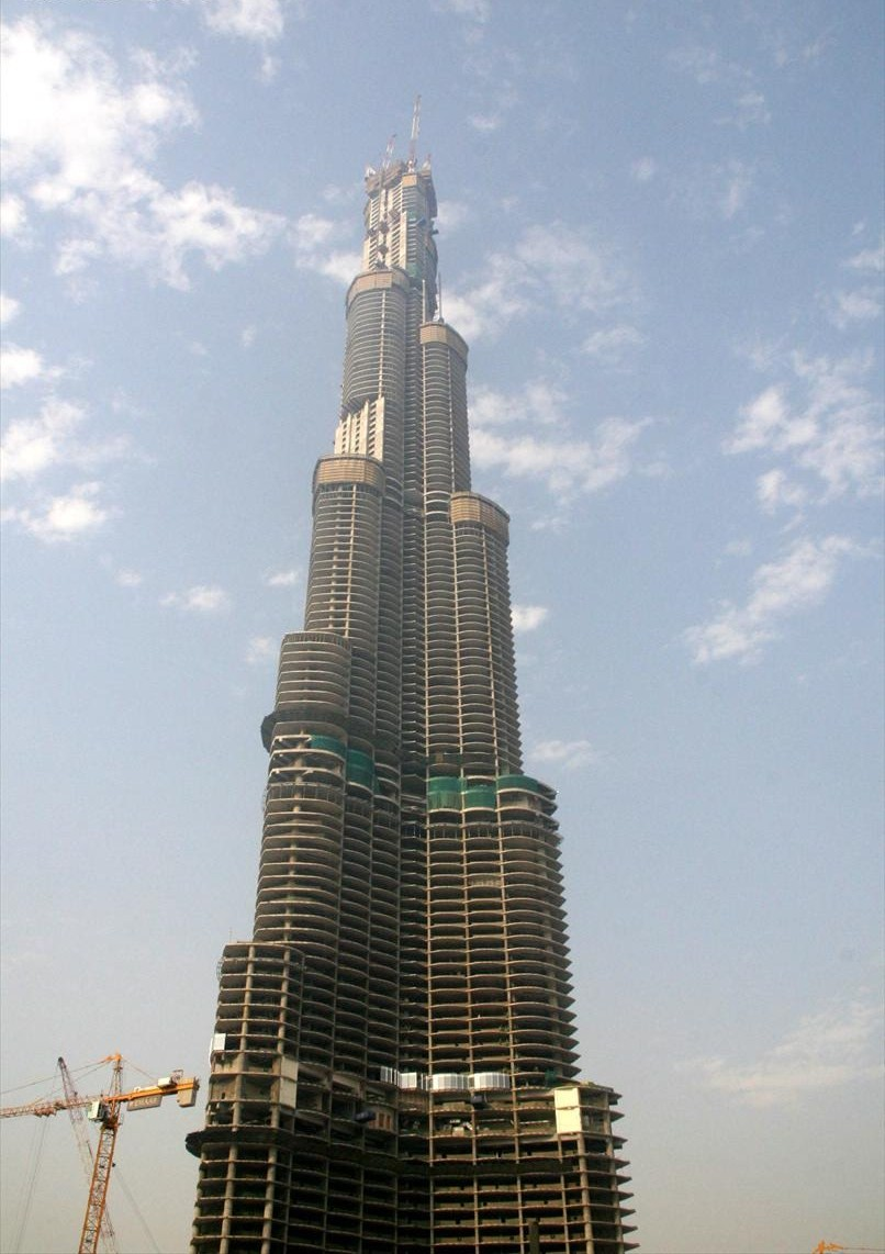 This is a photo of the Burj Khalifa, located in Dubai, United Arab Emirates, during construction on 16 June 2007 in the "early morning."